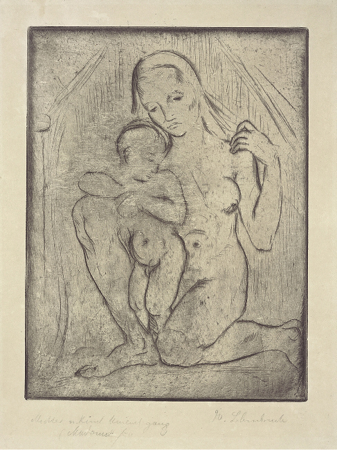 Mother and child kneeling complete (Madonna), drypoint engraving on Japan paper